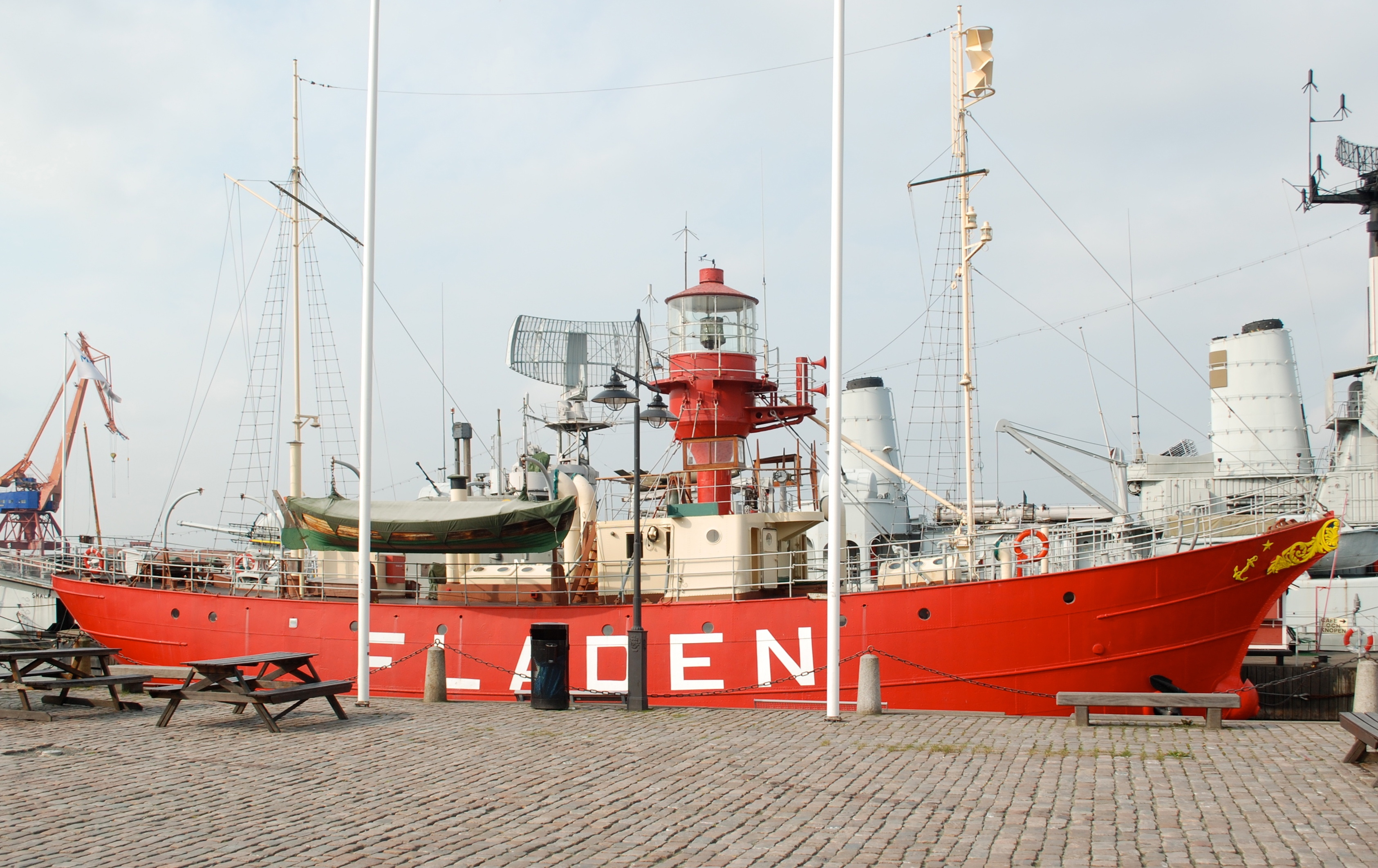 Lightships Fladen.